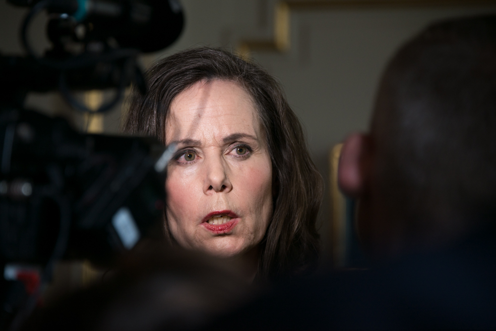 Permanent Secretary of the Swedish Academy Sara Danius announces the Nobel Prize in Literature in 2017.